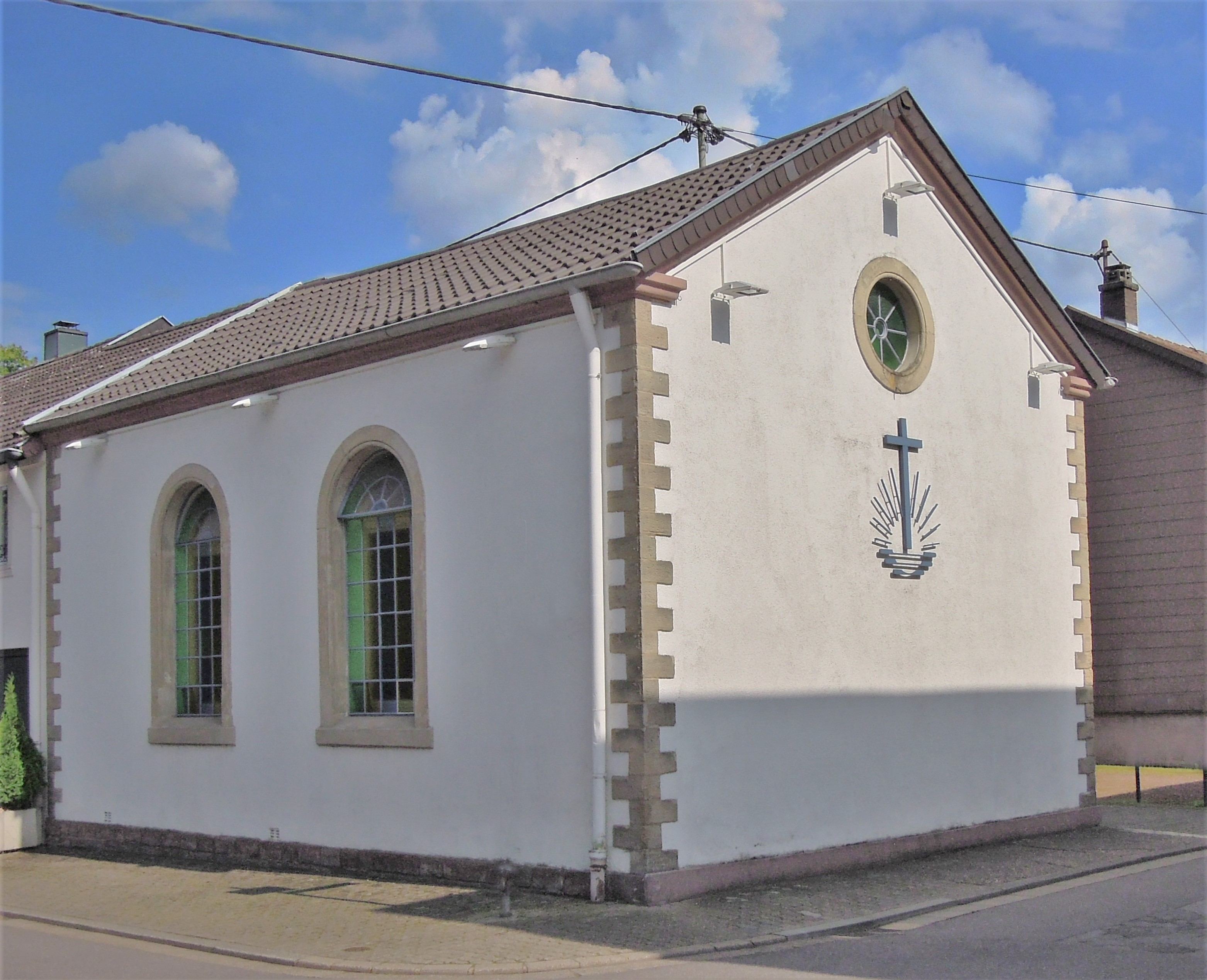 Former synagogue in Wallerfangen.